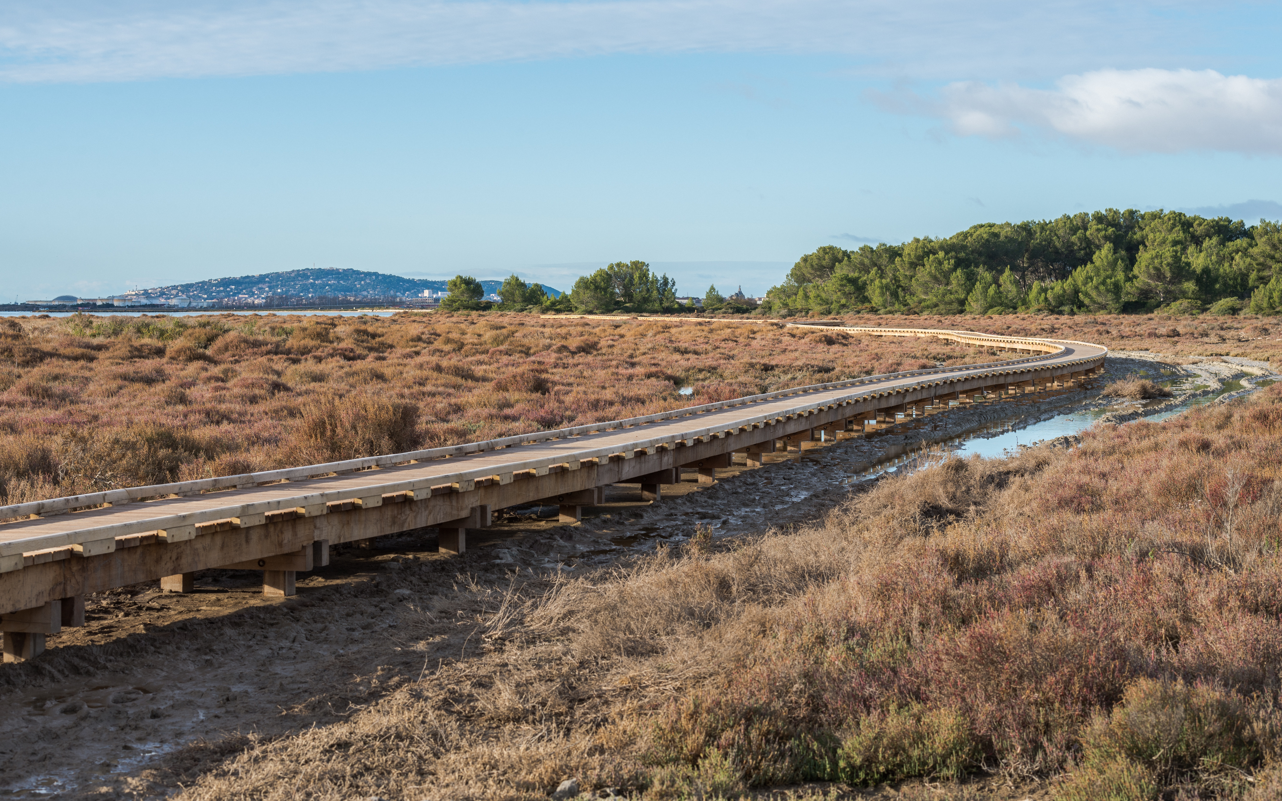 The town of Sète and the Mount Saint-Clair from Vic-la-Gardiole, Hérault, France.